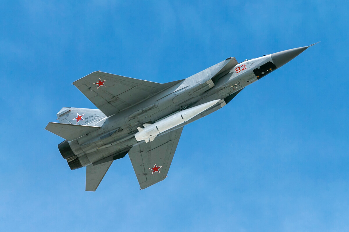 Kh-47M2 Kinzhal